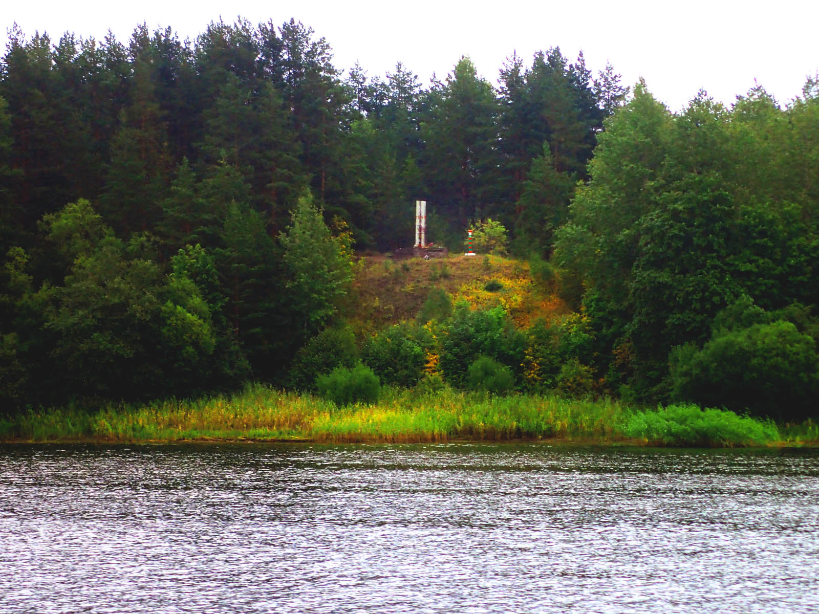 The site of general Ivan Fedyuninsky's command post on the east bank of Narva River in Tõrvala village, Estonia 1944 (now in Leningrad oblast, Russia). View from the west bank in Estonia.